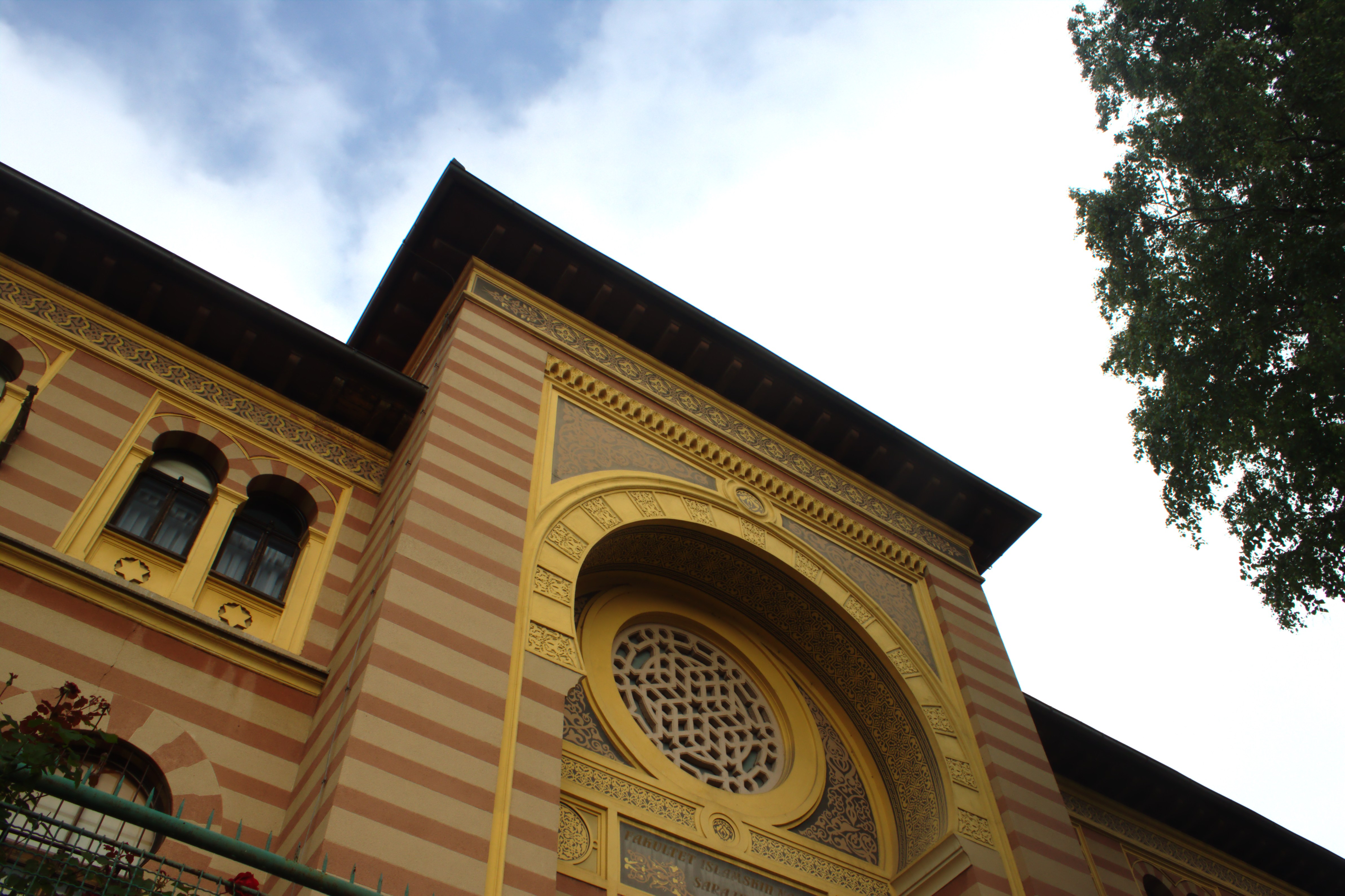 Front side of the faculty of the islamic law in Sarajevo-Vratnik, BiH